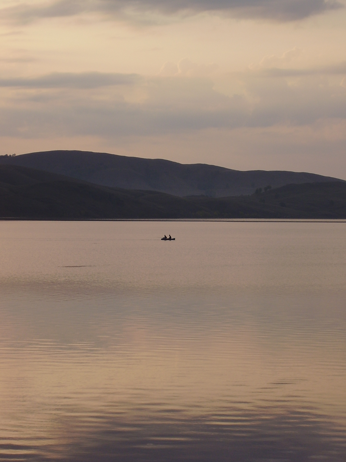 Lake Bannoye.